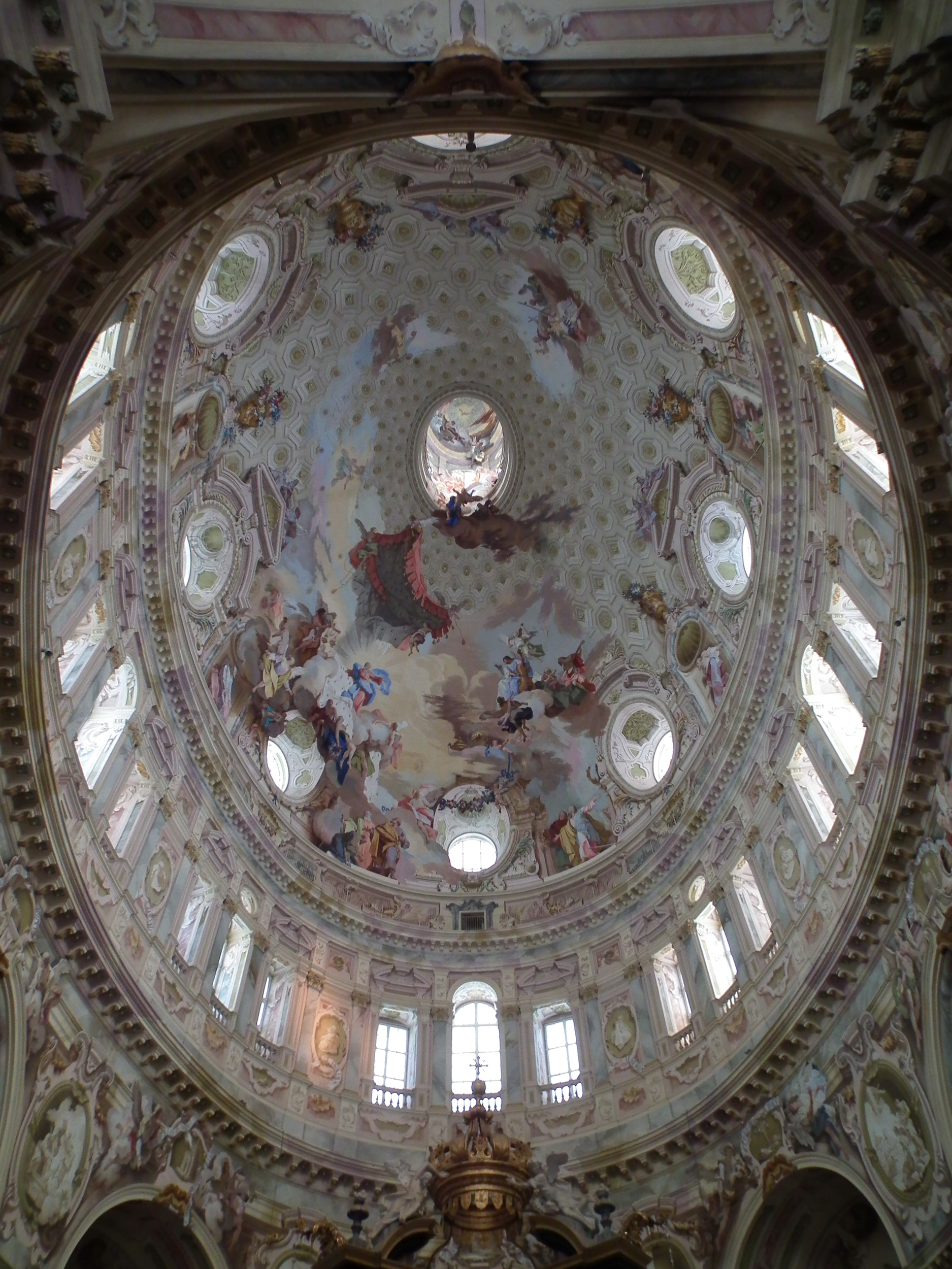 Basilica della Natività di Maria Santissima, Vicoforte, Piedmont, Italy - Dome Basilica della Natività di Maria Santissima Native nameBasilica della Natività di Maria SantissimaLocationVicoforte, Piedmont, ItalyCoordinates44° 21′ 49″ N, 7° 51′ 46″ E Established1596 (Began construction)Authority control : Q3471751